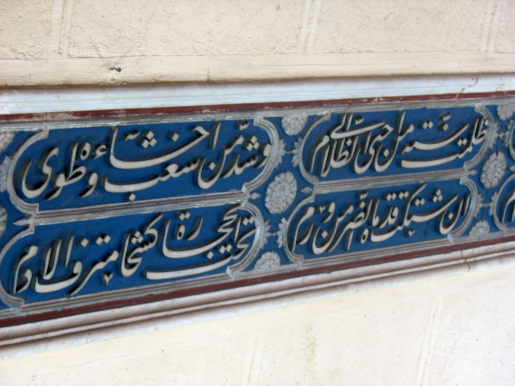 A verse from Qasidat al-Burdah on the walls of al-Busiri's Mosque/Shrine in Alexandria, Egypt